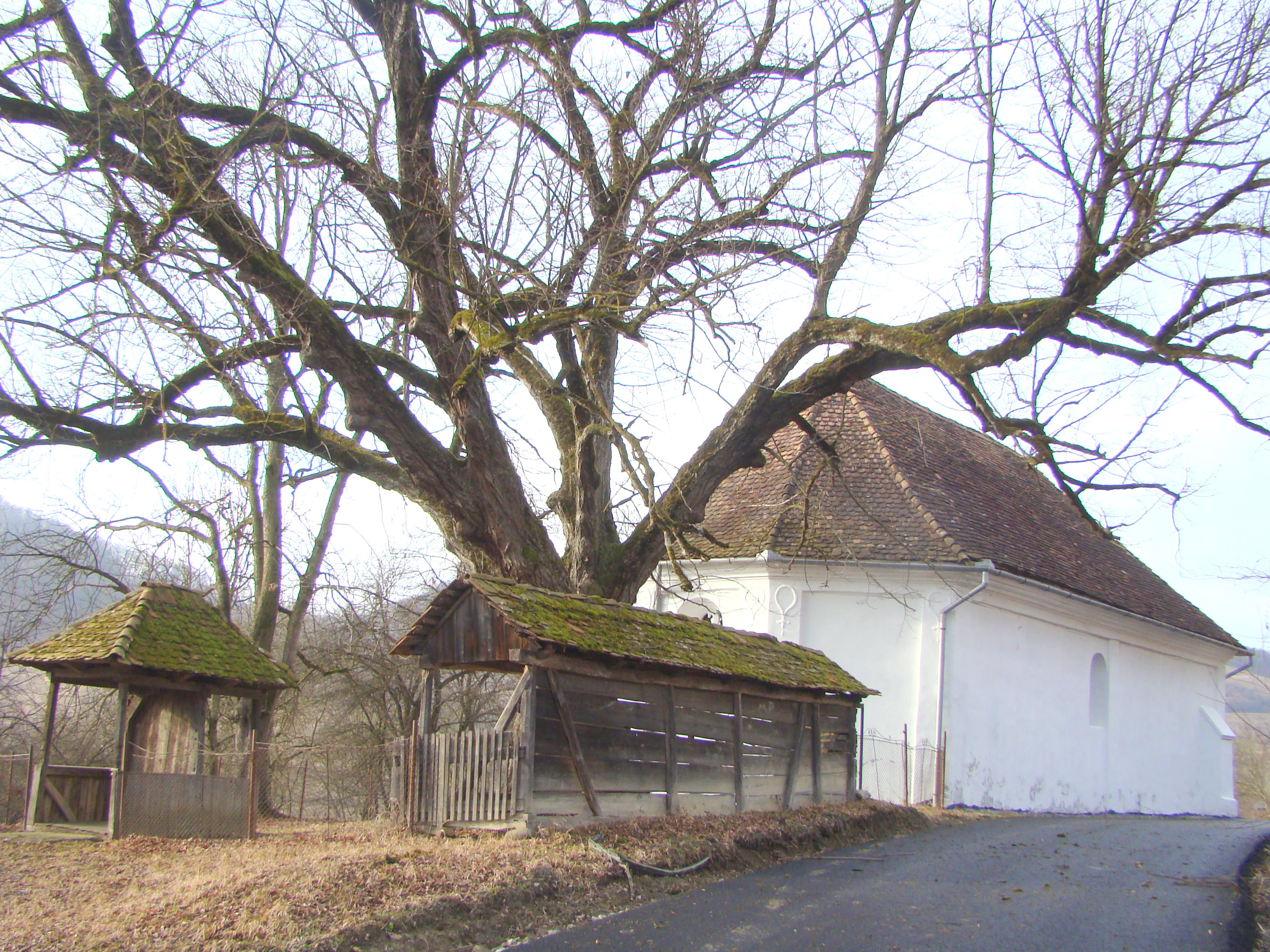 Reformed church in Sânsimion, Mureș County, Romania